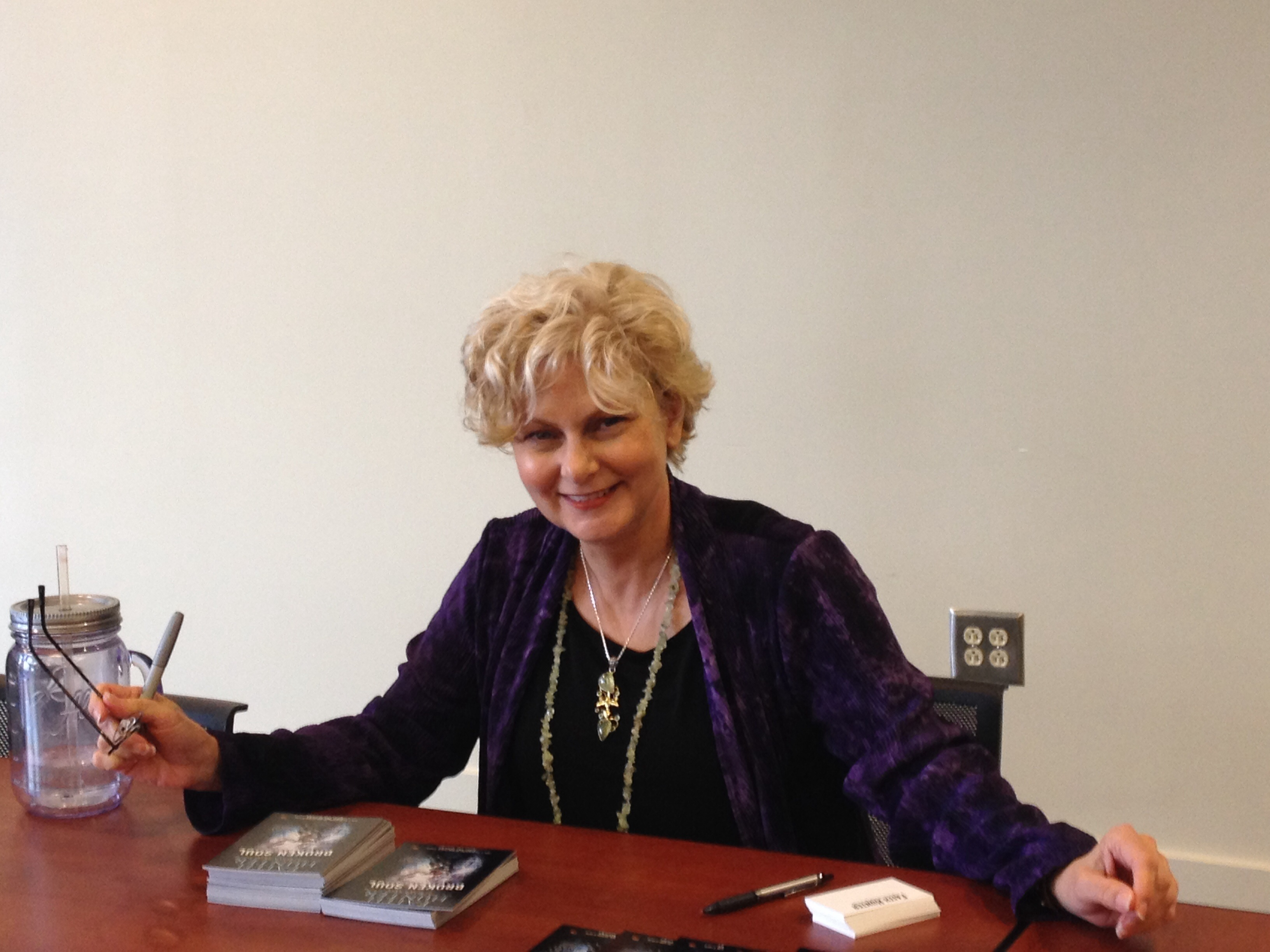 Author Faith Hunter speaking at the Athens-Clarke County (GA, US) Library, October 11, 2014